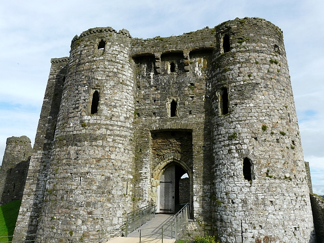 The great gatehouse, Kidwelly Castle Building of this gatehouse started in the late 14th century, but it wasn't completed until 1422. It forms part of additional outer fortifications to the original Norman castle. For a detailed look at Kidwelly Castle, .